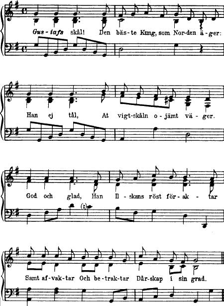 Gustav's Toast